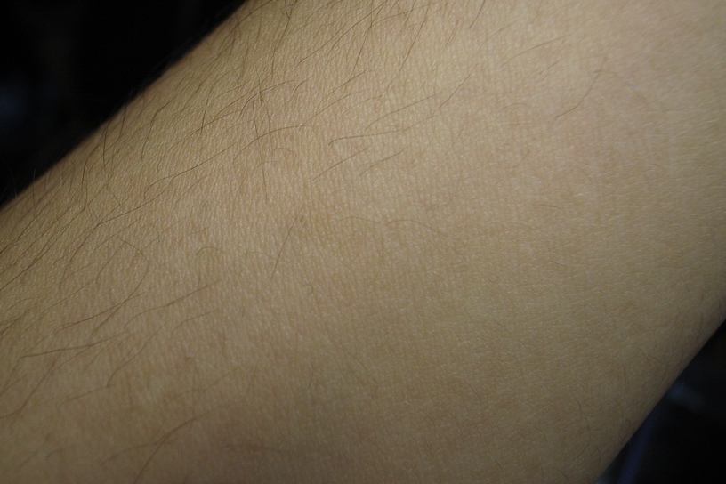 leftarm of mine